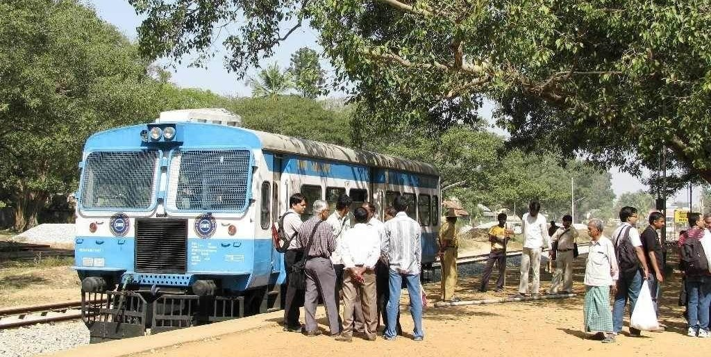 Kolar Railbus IndianRailways - runs on Kolar to Bangarpet section of South Western Railways